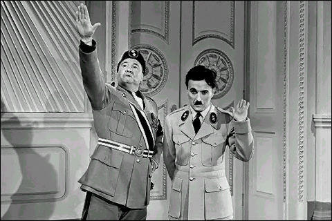 Charlie Chaplin and Jack Oakie from the film The Great Dictator (1940).